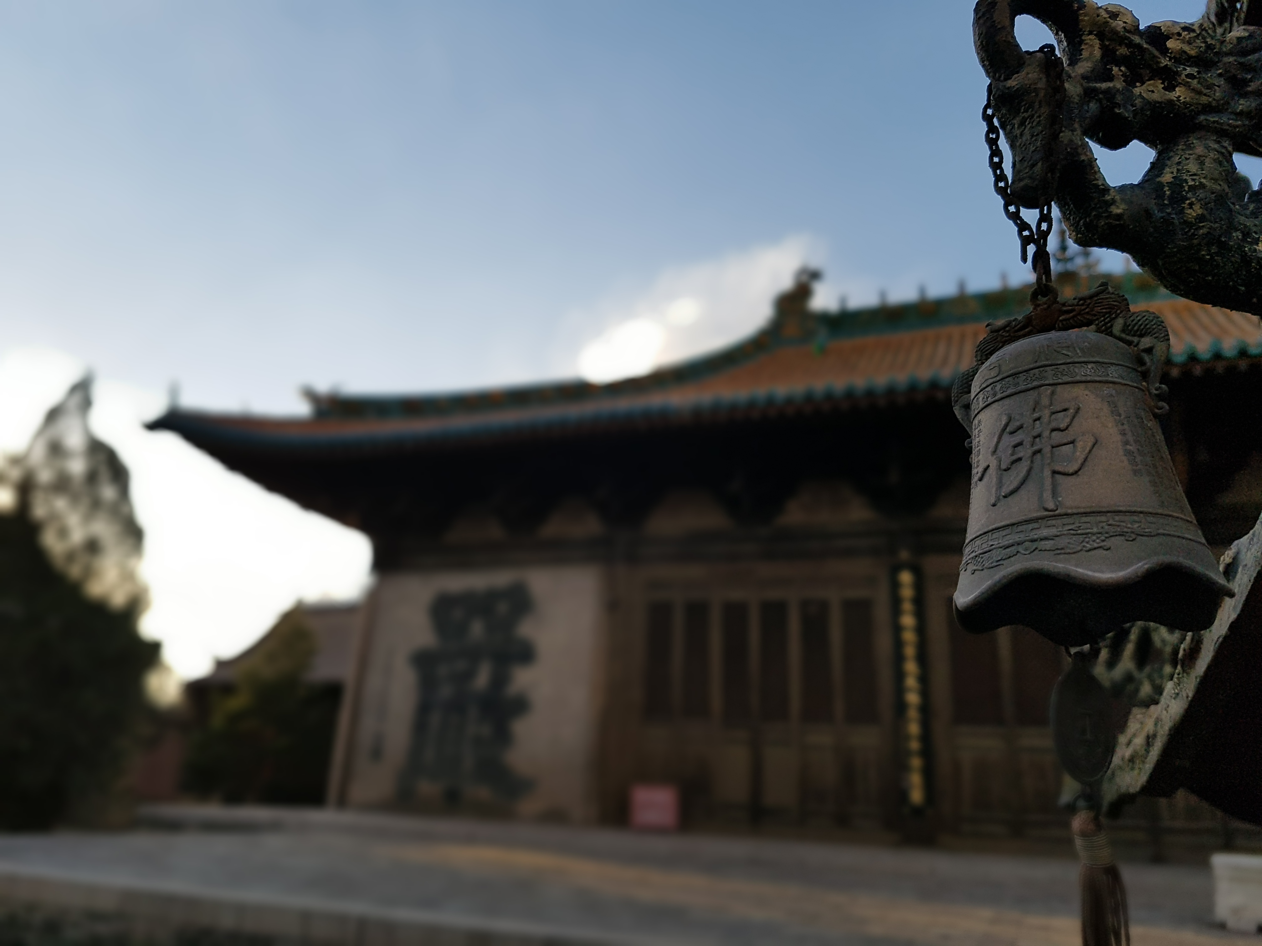 Yong'an Temple, Hunyuan, Shanxi, China 中文（中国大陆）: 浑源永安寺